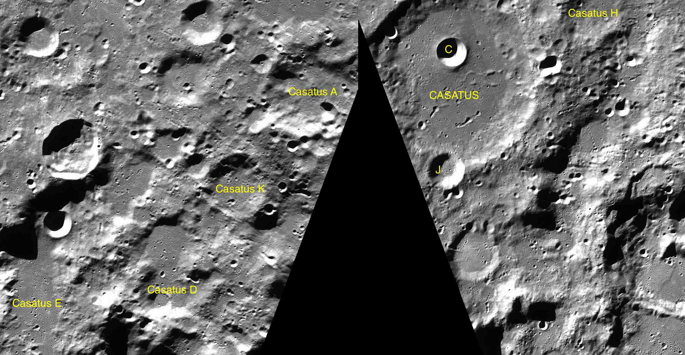 Parts of the charts LAC-136 and LAC-137 used for the presentation